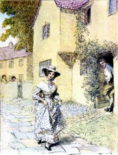 Frontispiece from Scenes of Clerical Life written by George Eliot and illustrated by Hugh Thomson, published by MacMillan in 1906.